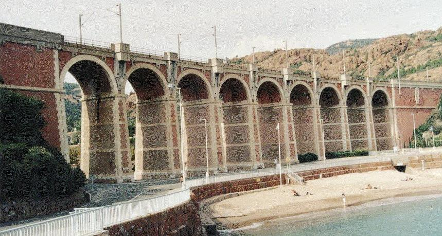 Antheor Rail Viaduct from the south